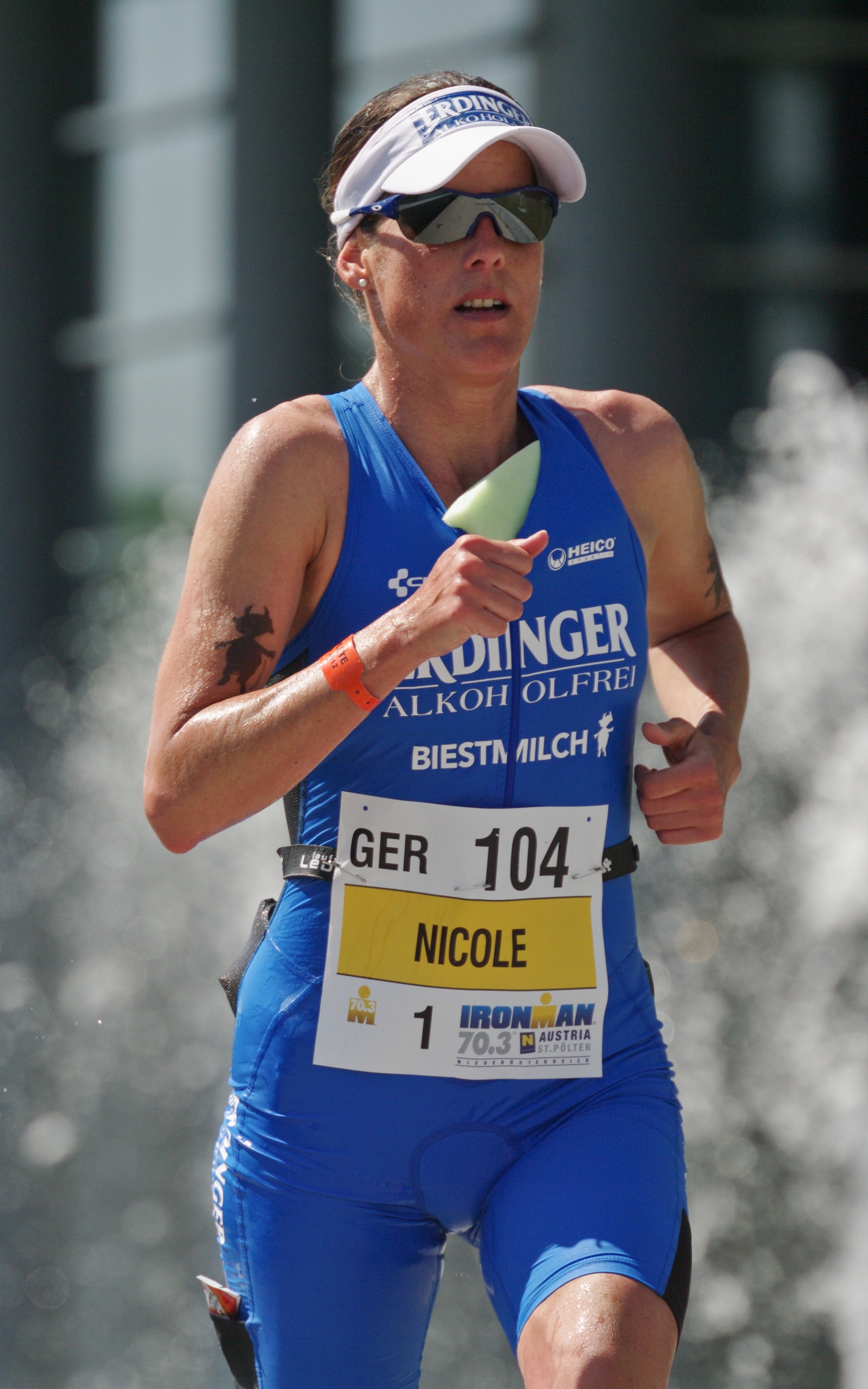 German triathlete Nicole Leder in the Ironman 70.3 Austria on 20 May 2012 in St. Pölten.